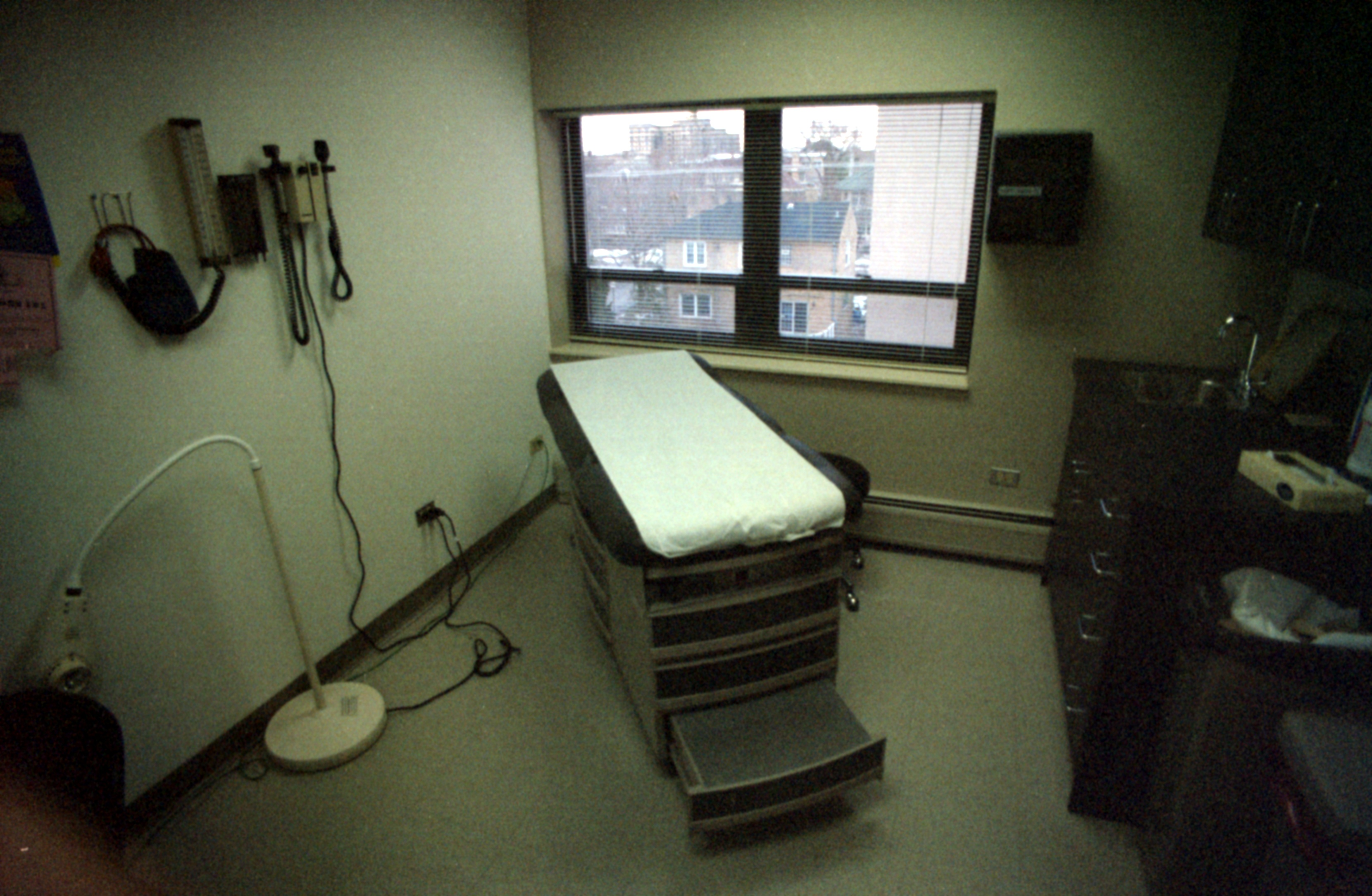 A typical examination room in a doctor's office.